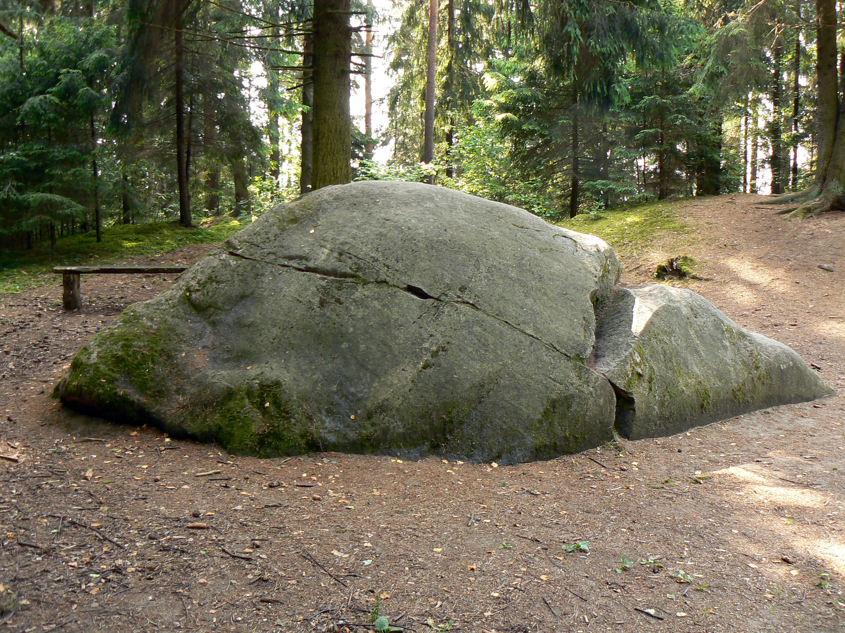 Puntuko brolis (Brother of Puntukas), 5.94 m wide and 4.7 m long boulder in Anykščiai district, Lithuania.